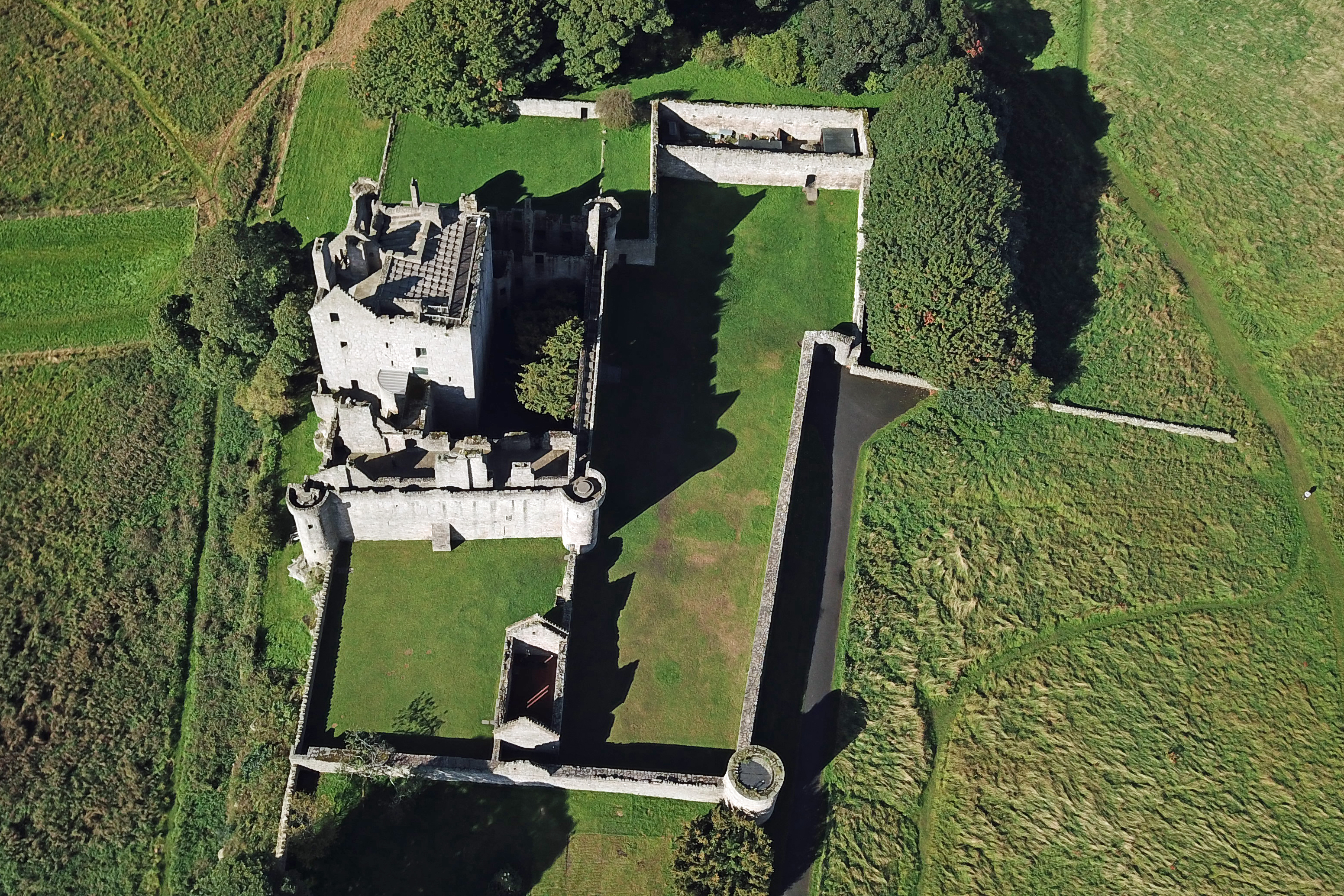 Edinburgh, Craigmillar Castle Road, Craigmillar Castle Wikidata has entry Q17571032 with data related to this item.